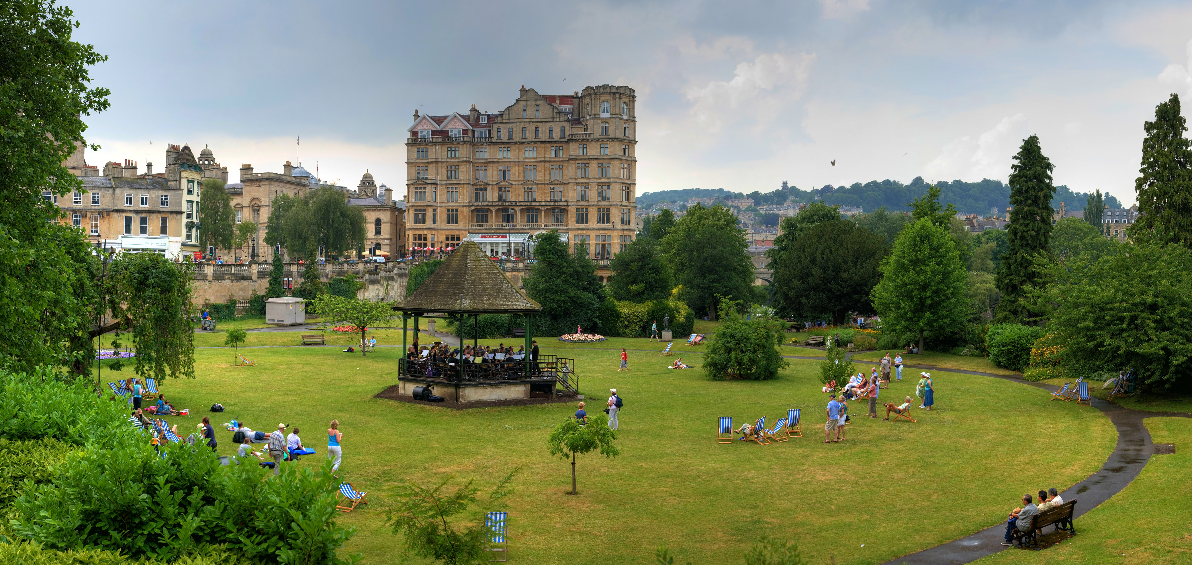 Parade Gardens in Bath, England after a summer rain shower. A band is entertaining the visitors to the gardens.